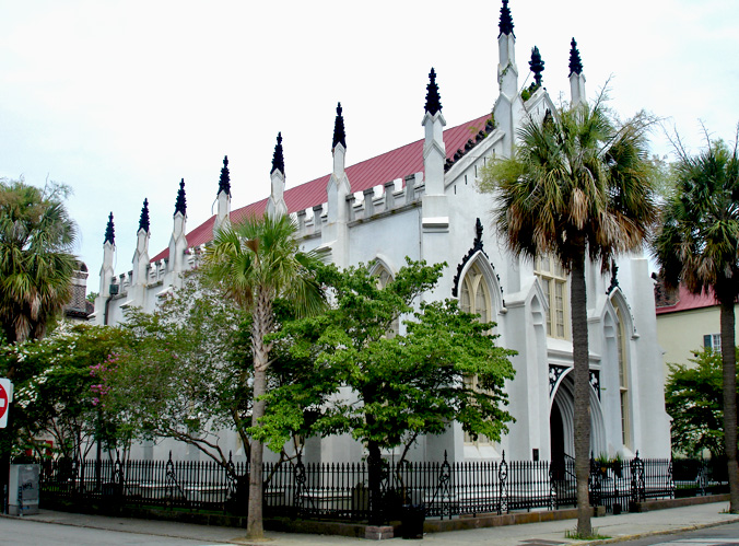 French Protestant (Huguenot) Church, downtown Charleston, South Carolina, USA Author: myself